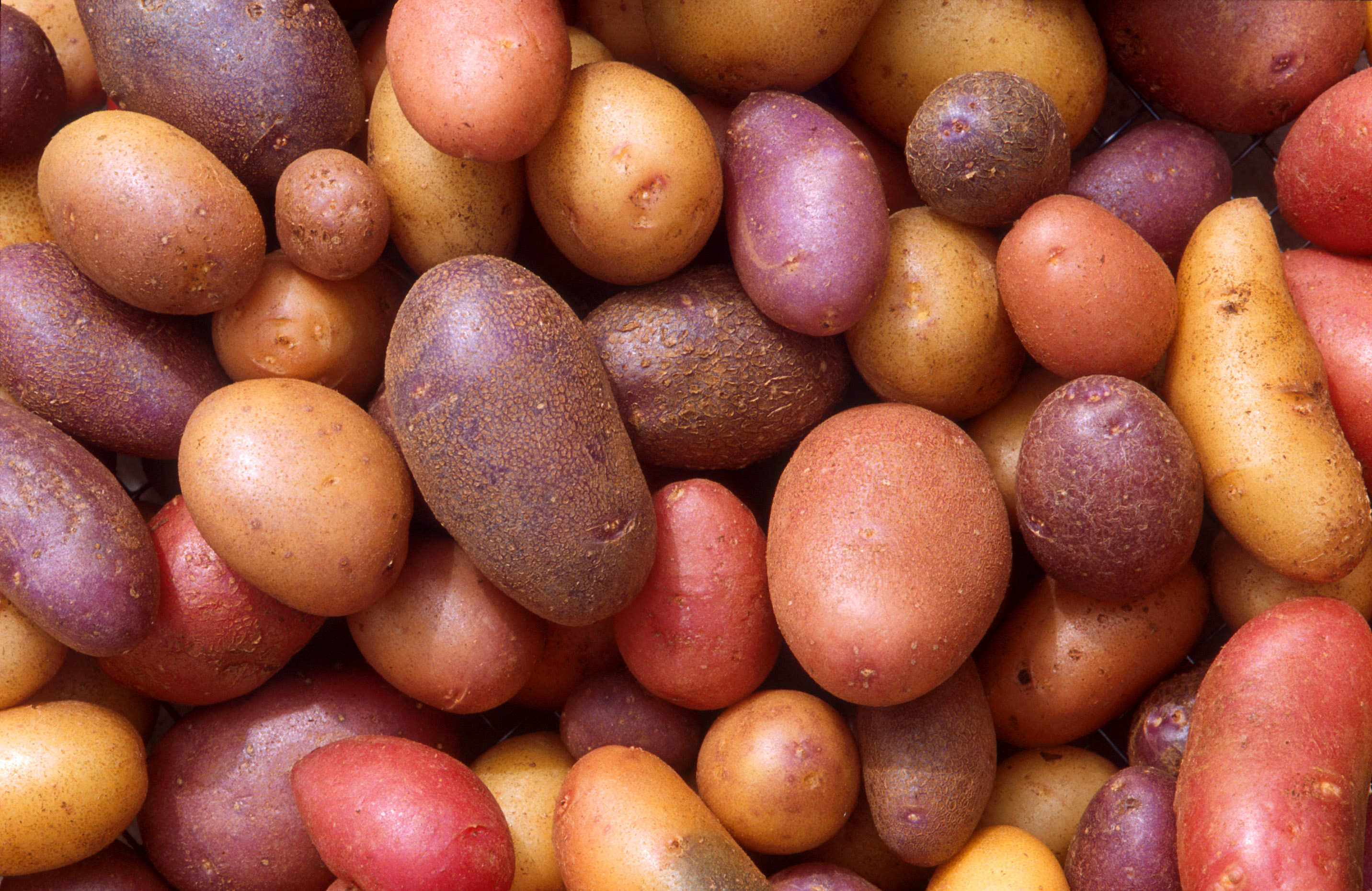 Different potato varieties. – The potato is the vegetable of choice in the United States. On average, Americans devour about 65 kg of them per year. New potato releases by ARS scientists give us even more choices of potatoes to eat.